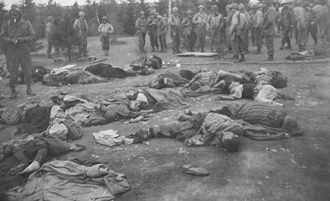 American soldiers view the corpses of prisoners that are strewn over the ground during an inspection of the newly liberated Ohrdruf concentration camp.